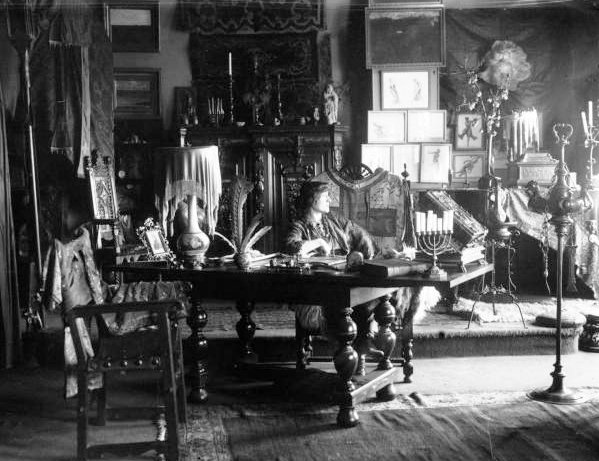 French writer Valentine de Saint-Point (1875-1953).